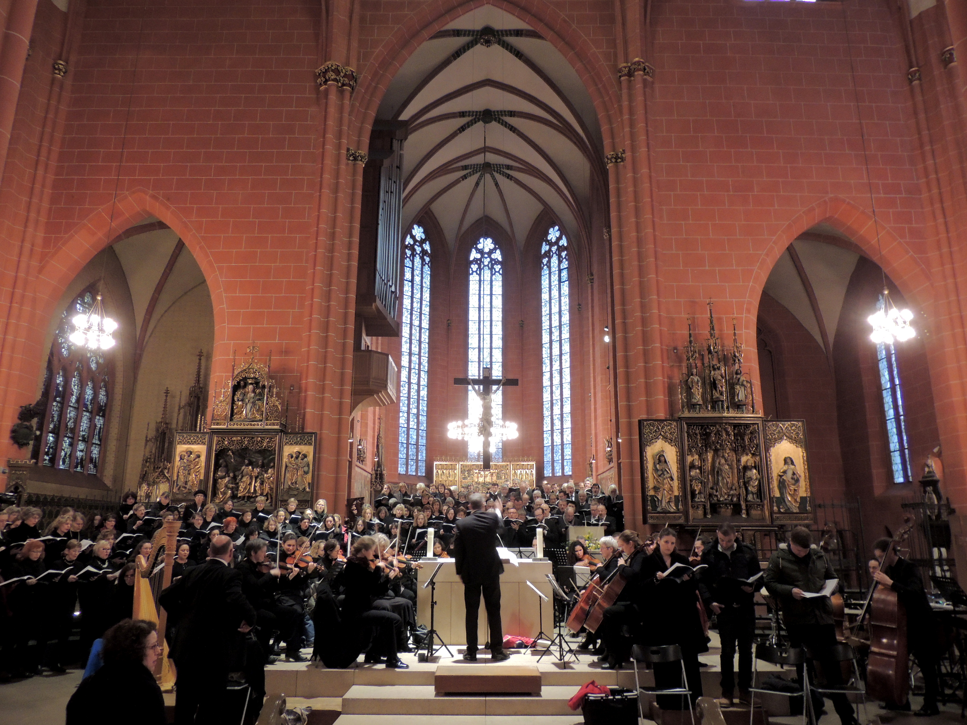 Six choirs and soloists preparing a performance of the oratorio Laudato si' by Peter Reulein (music and conducting) and Helmut Schlegel (lyrics) on 29 January 2017 at the Frankfurt Cathedral